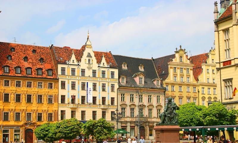 Aleksander Fredro Monument in Wrocław on Market Square in Wrocław